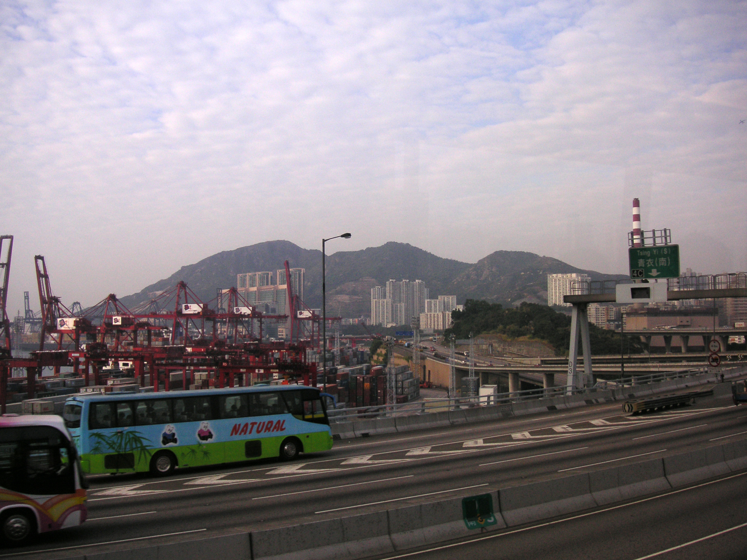 Three peaks of Tsing Yi Peak.